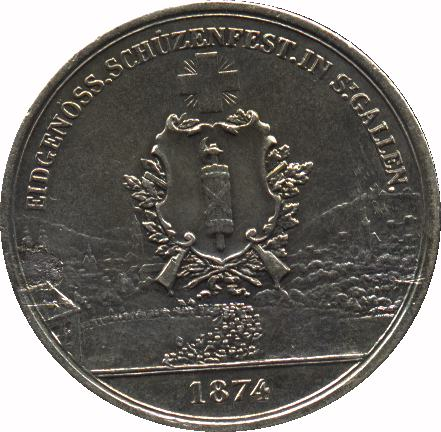 1874 Shooting Thaler Obverse